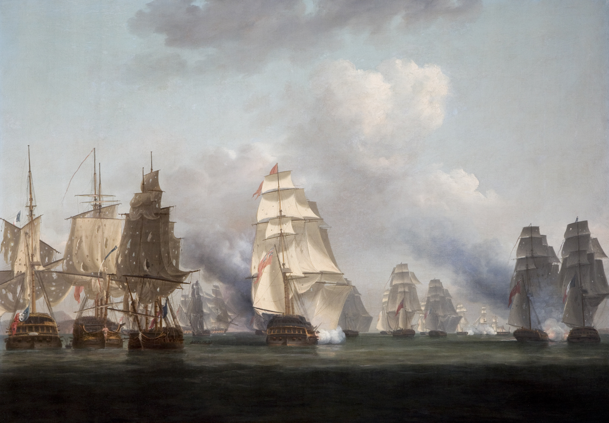 Attack of the French Squadron under Monsr. Bompart Chef d'Escadre, upon the Coast of Ireland, by a Detachment of His Majesty's Ships under the Command of Sir J. B. Warren, Oct. 12th 1798